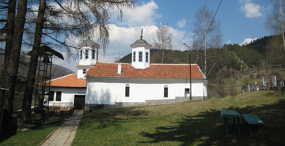 The Assumption of God's Mother Church in Beli Iskar